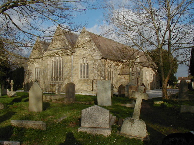 St Illogan's parish church, Illogan, Cornwall, seen from the southwest